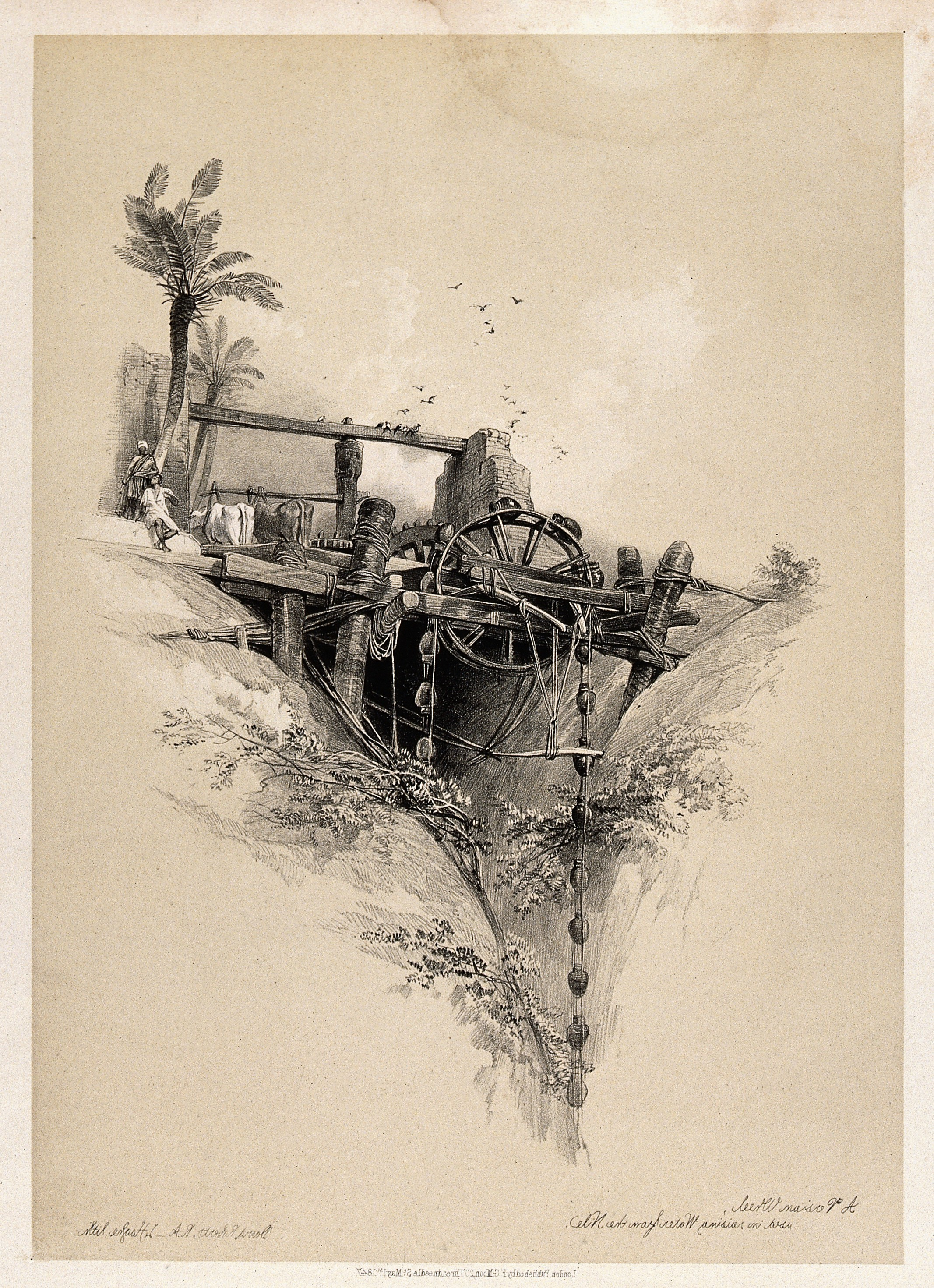 A Persian water-wheel used in raising water from the Nile. Lithograph by L. Haghe, 1847, after D. Roberts. Iconographic Collections Keywords: David Roberts; Louis Haghe